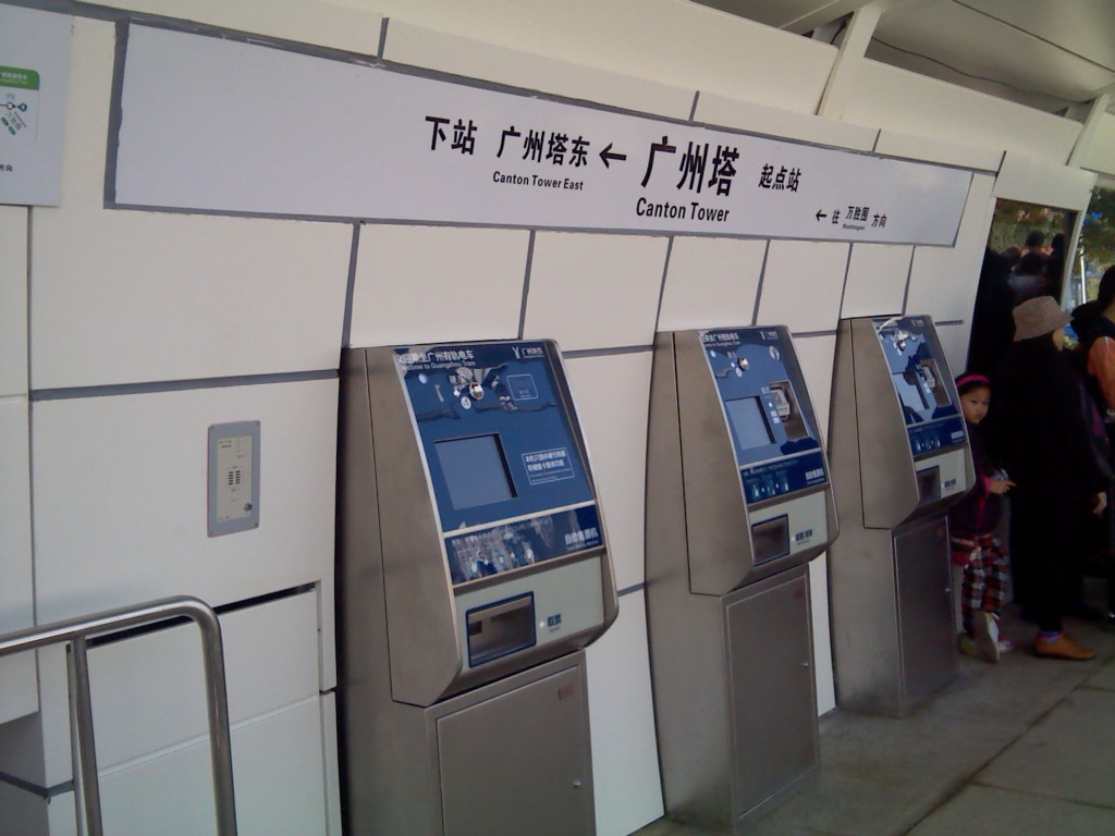 海珠有轨电车广州塔站月台